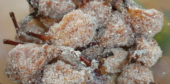 Dry varenye Kiev-style - pear